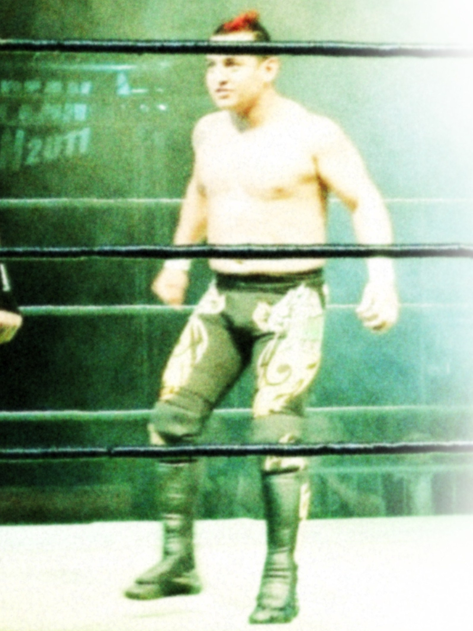 Ricky Marvin, Pro Wrestling NOAH European Navigation 2011, Broxbourne Civic Hall, 13 May 2011. Processed using Lo-Fi. Cropped from original.